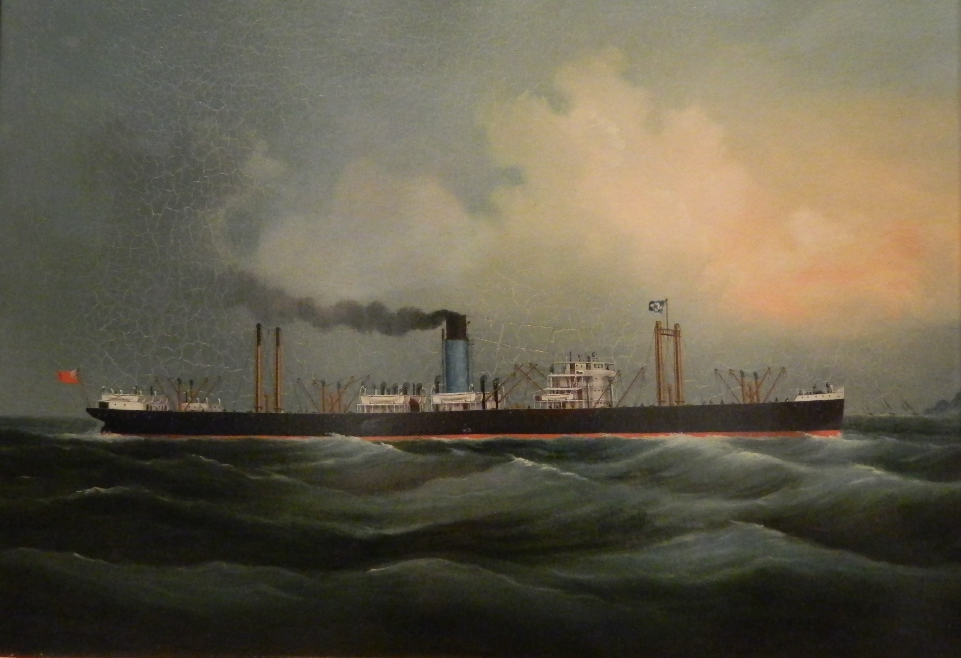 Painting of Blue Funnel Line's 9,076 GRT cargo steamship Cyclops approaching Hong Kong. D&W Henderson of Glasgow built her in 1906. She was the second of four Blue Funnel ships to be called Cyclops. In 1942 she was sunk by a U-boat off Nova Scotia with the loss of 87 lives. The painting is in the Museum of Liverpool; the artist is unknown.